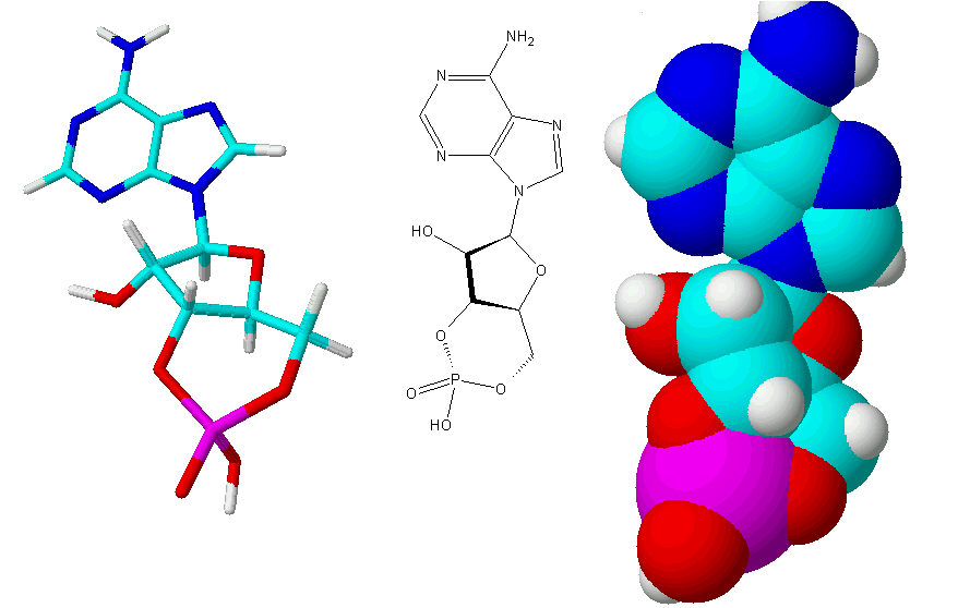 cAMP represented in three ways, the left with sticks-representation, the middle with structure formula, and the right with space filled representation. Red = Oxygen, Lightblue=Carbon, White=Hydrogen, Darkblue=Nitrogen and Purple= Phosphorus